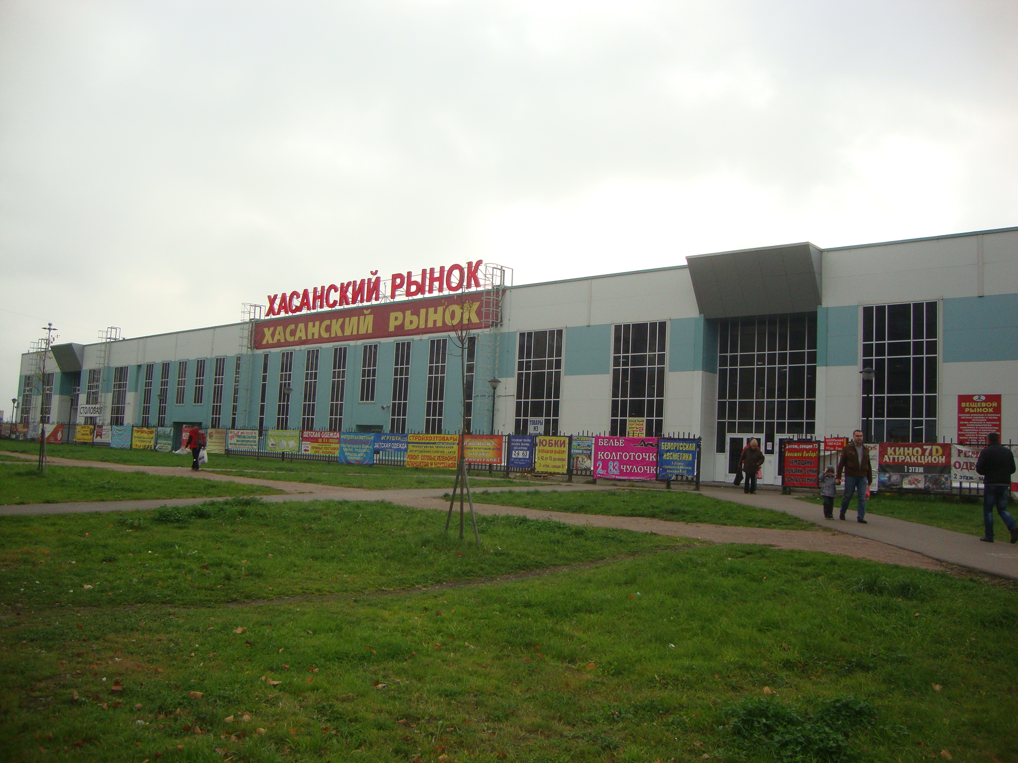 Хасанский рынок